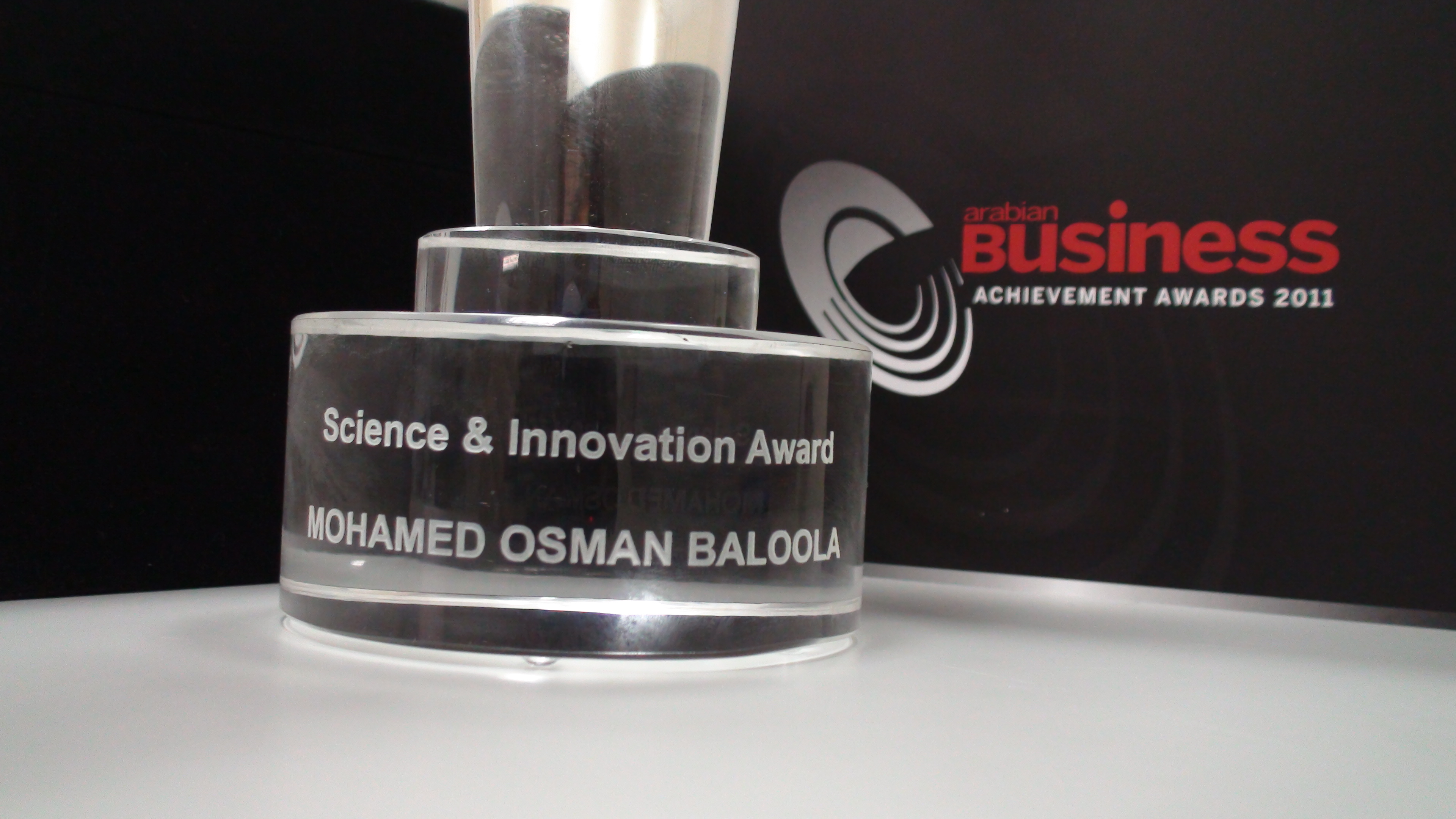 Arabian Business Achievement Awards 2011 Mohamed Osman Baloola won science and innovation award science and innovation trophy